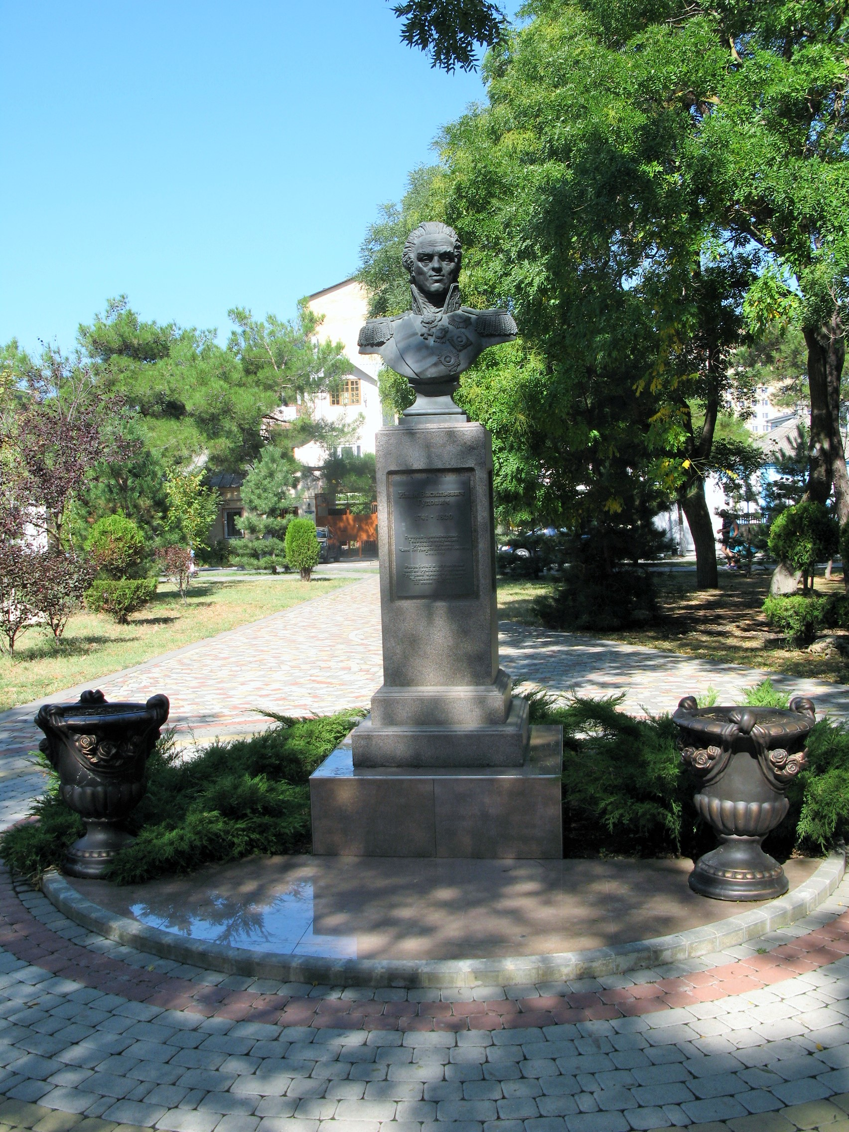 Monument to general - field marchal Ivan Gudovich (1741–1820) in Anapa, Russian Federation